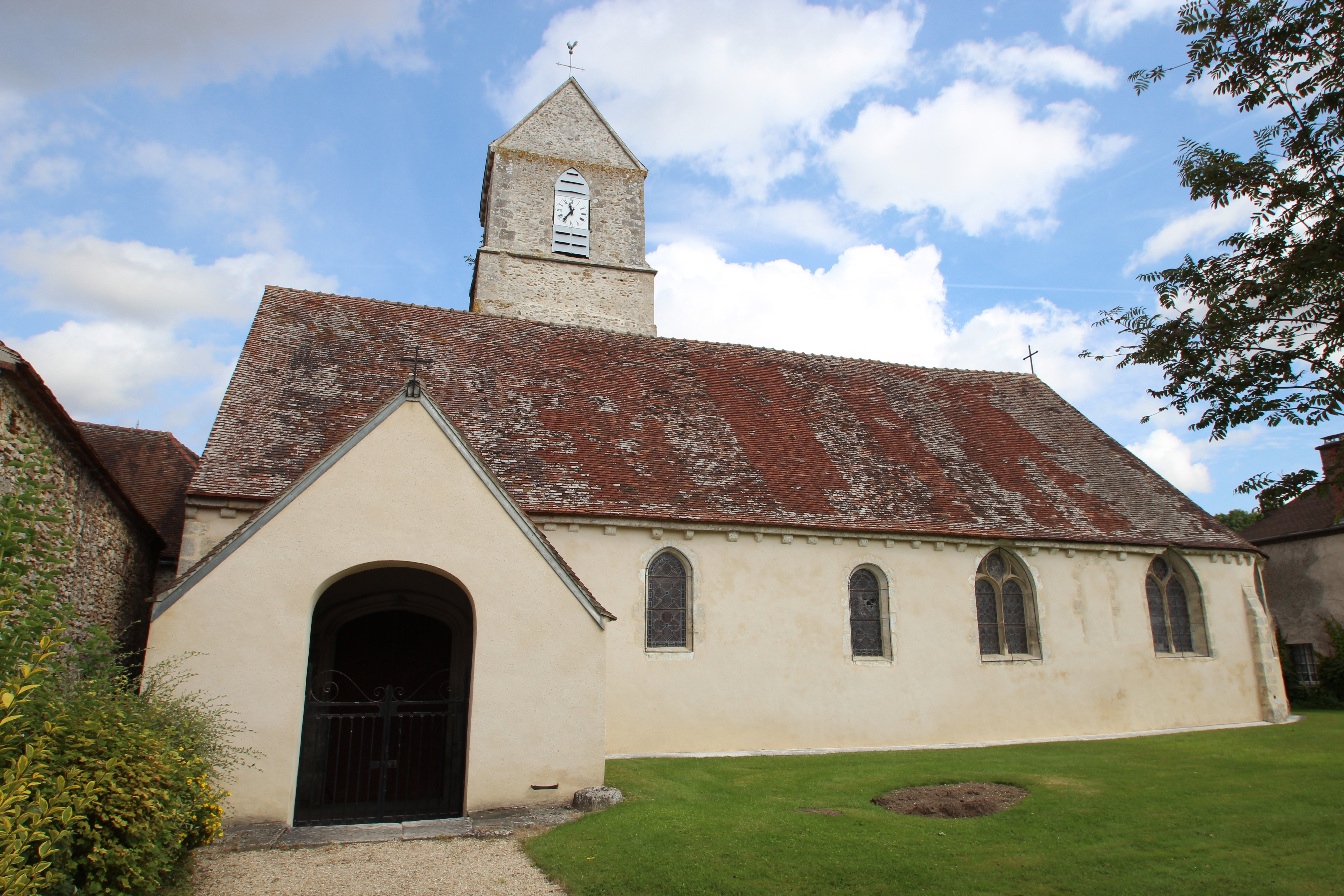 Saint-Martin church in Bleury-Saint-Symphorien, France. . Object location48° 31′ 13.95″ N, 1° 44′ 51.27″ E